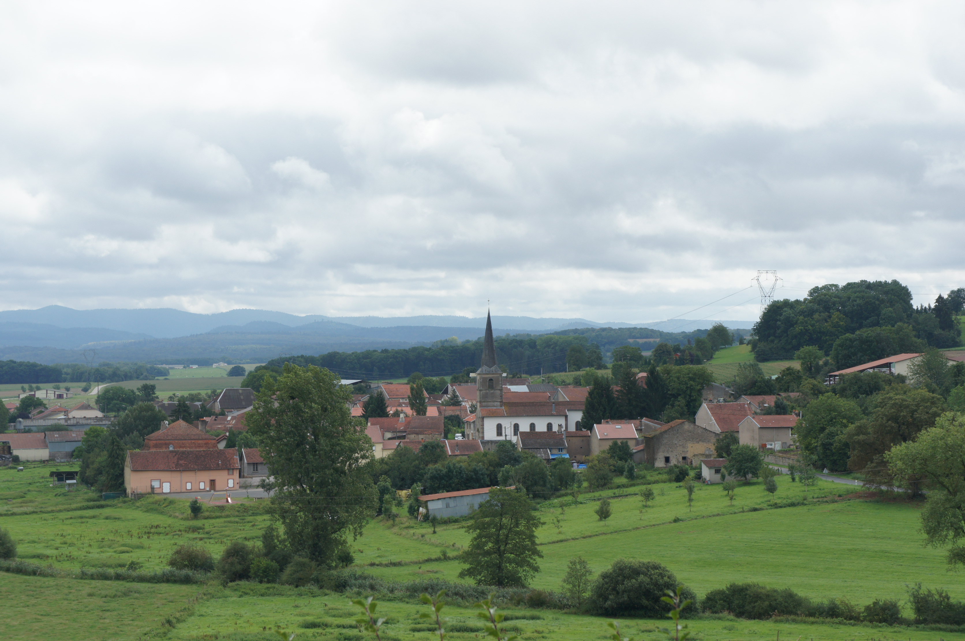 Barbas, Lorraine, France.